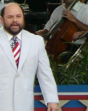 Jason Alexander from the Independence Day celebration in front of the US Capitol.